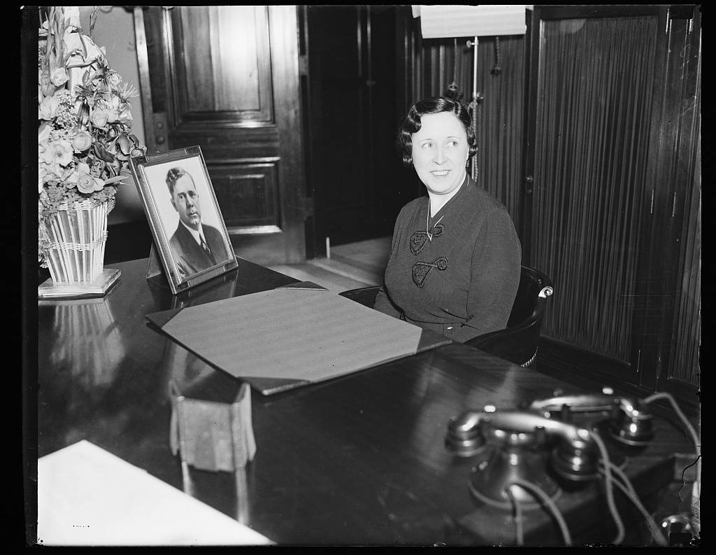 Rose Long at desk with photograph of Huey P. Long